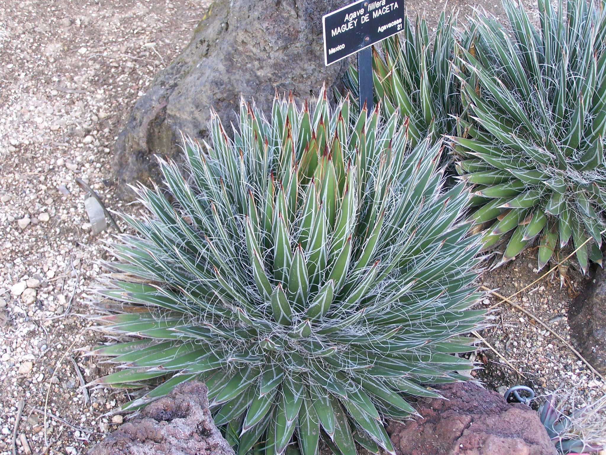 A specimen of agave filifera in the Huntington Botanical Desert Garden.